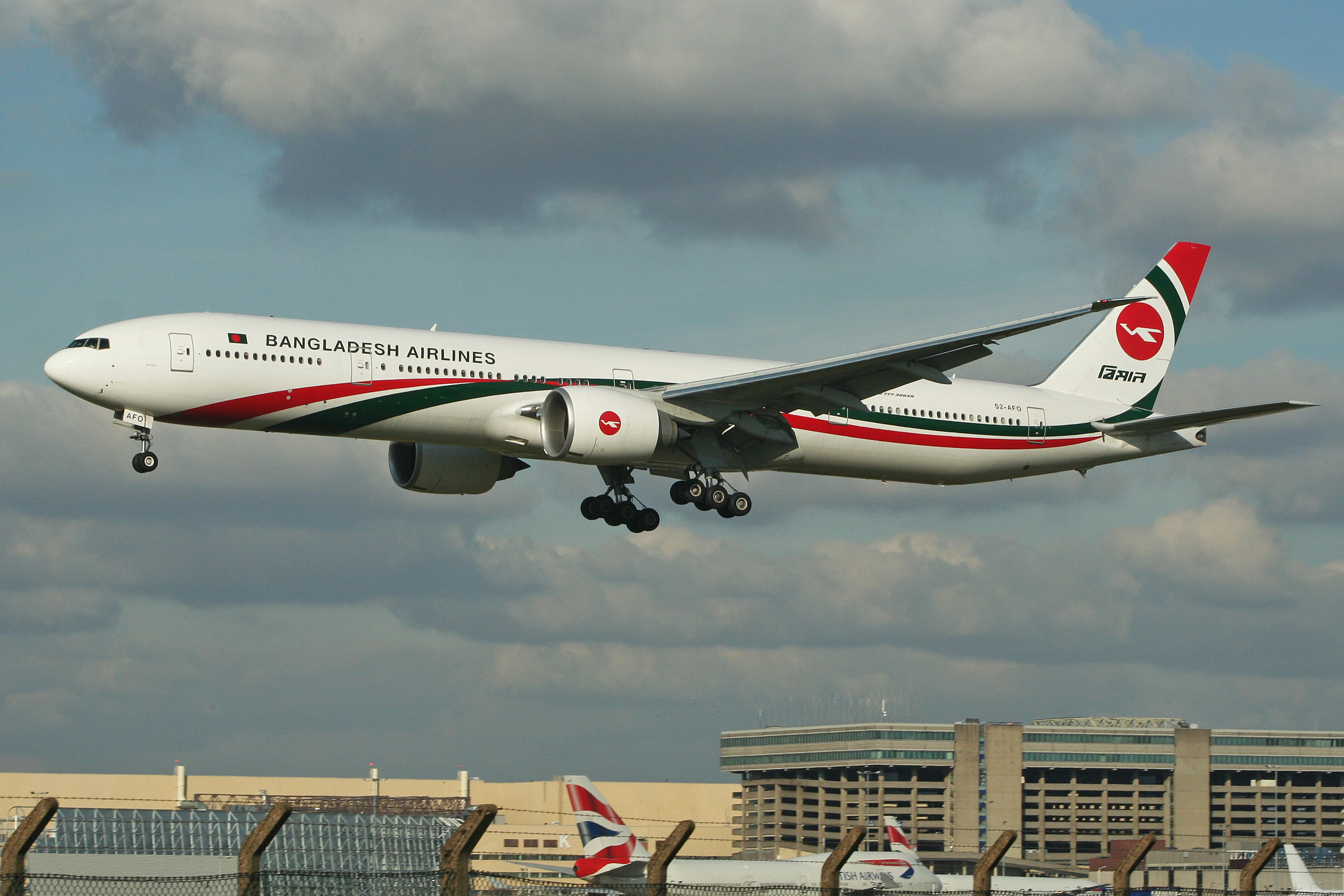 msn 40122, l/n 964. Arriving on flight BG005 from Dhaka. London Heathrow. 26-2-2012